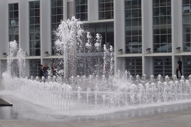 Wembley Arena Water Fountain in front of Wembley Arena